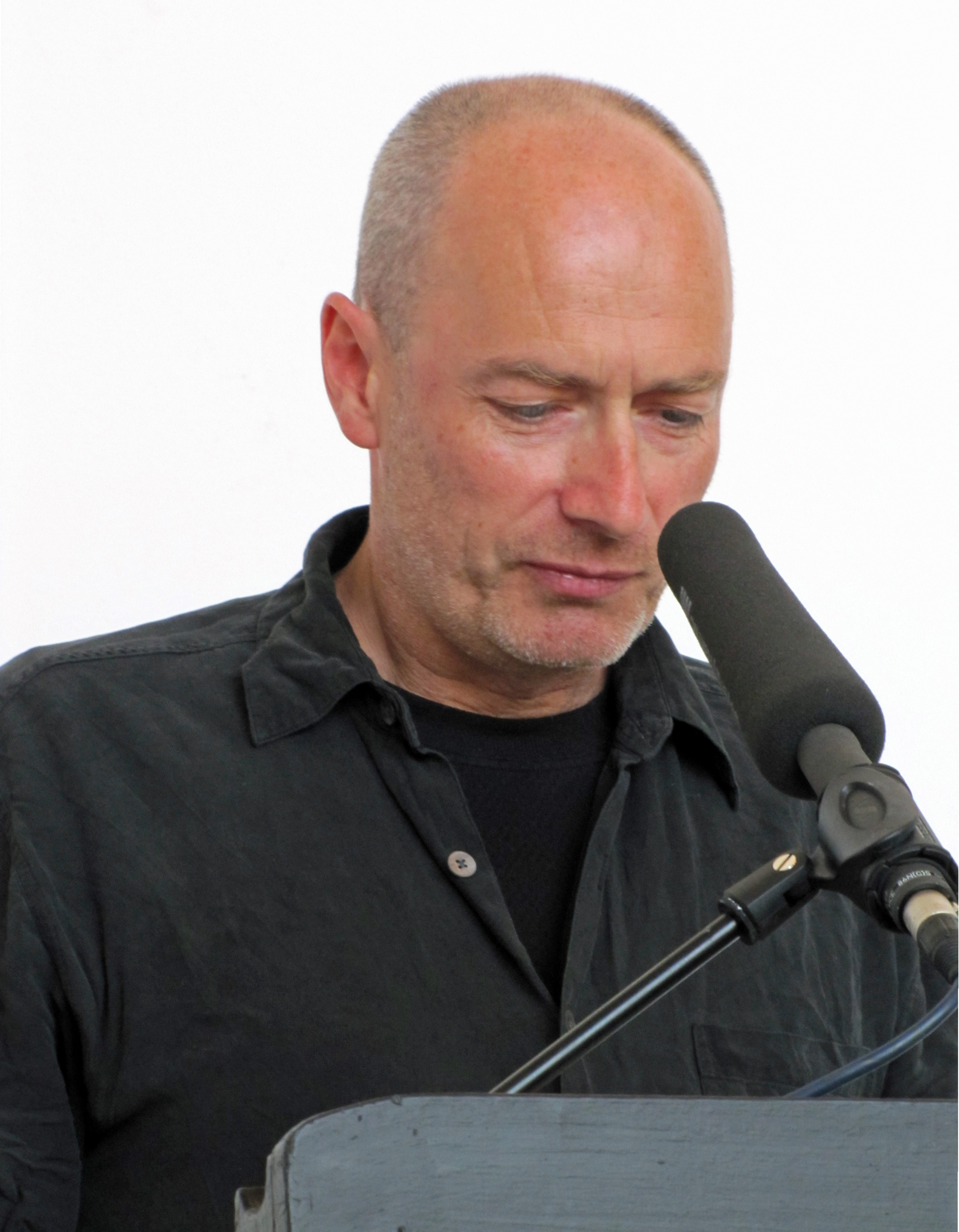 Ralf Boent, German author and physicist, 2011 at "Roemerberggespraeche" (panel discussion) in Frankfurt am Main, Germany.